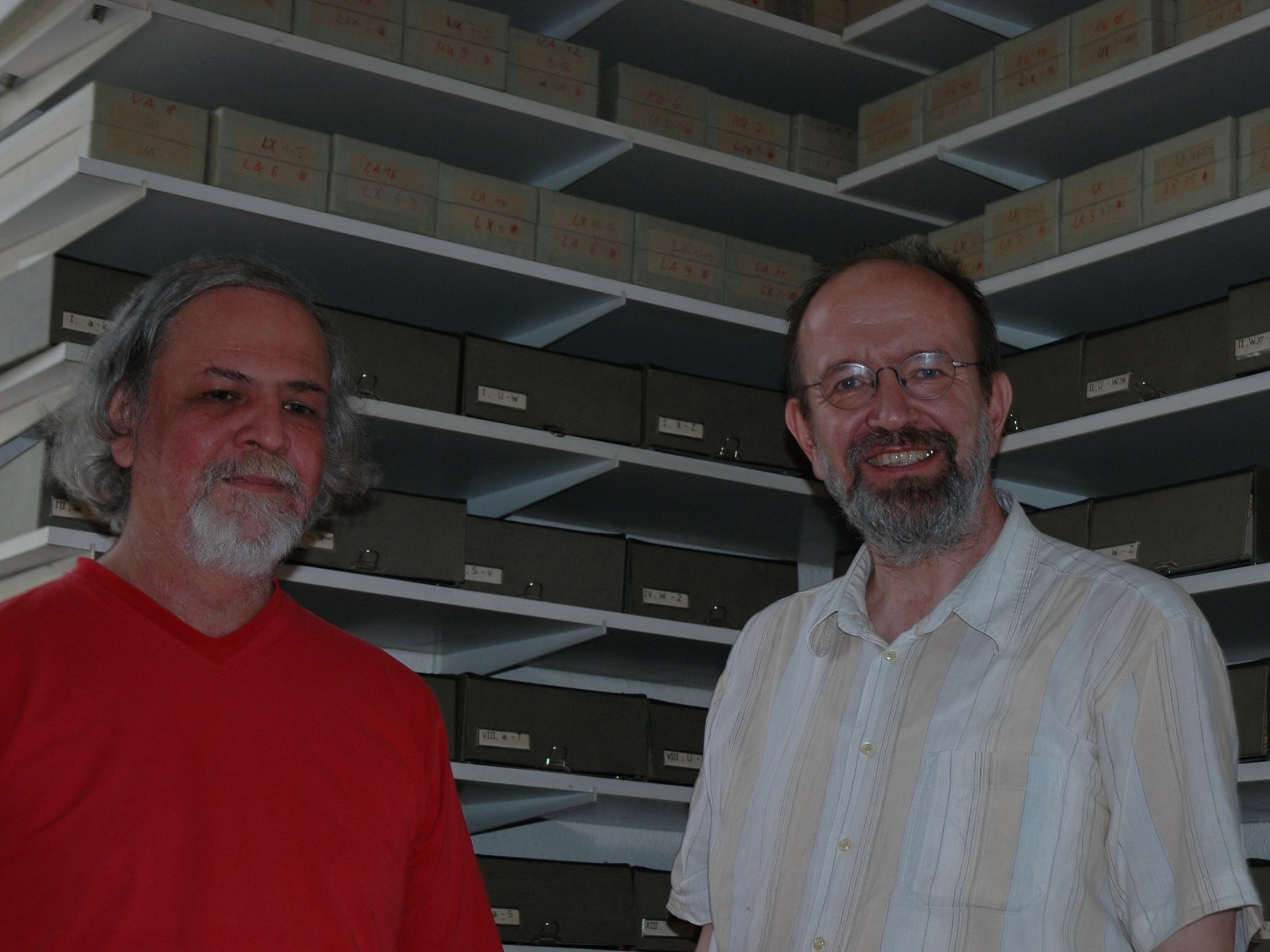 from right: editorial staff Ostfränkisches Wörterbuch Dr. Rowley, Dr. Klepsch